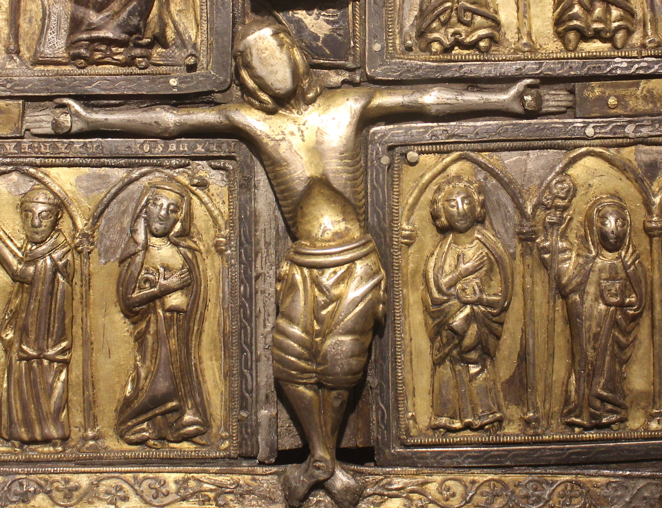 The Domhnach Airgid, or Silver Church, a book shrine (Cumdach) which was believed to have originally contained relics associated with St Patrick and which was remodelled in about 1350.